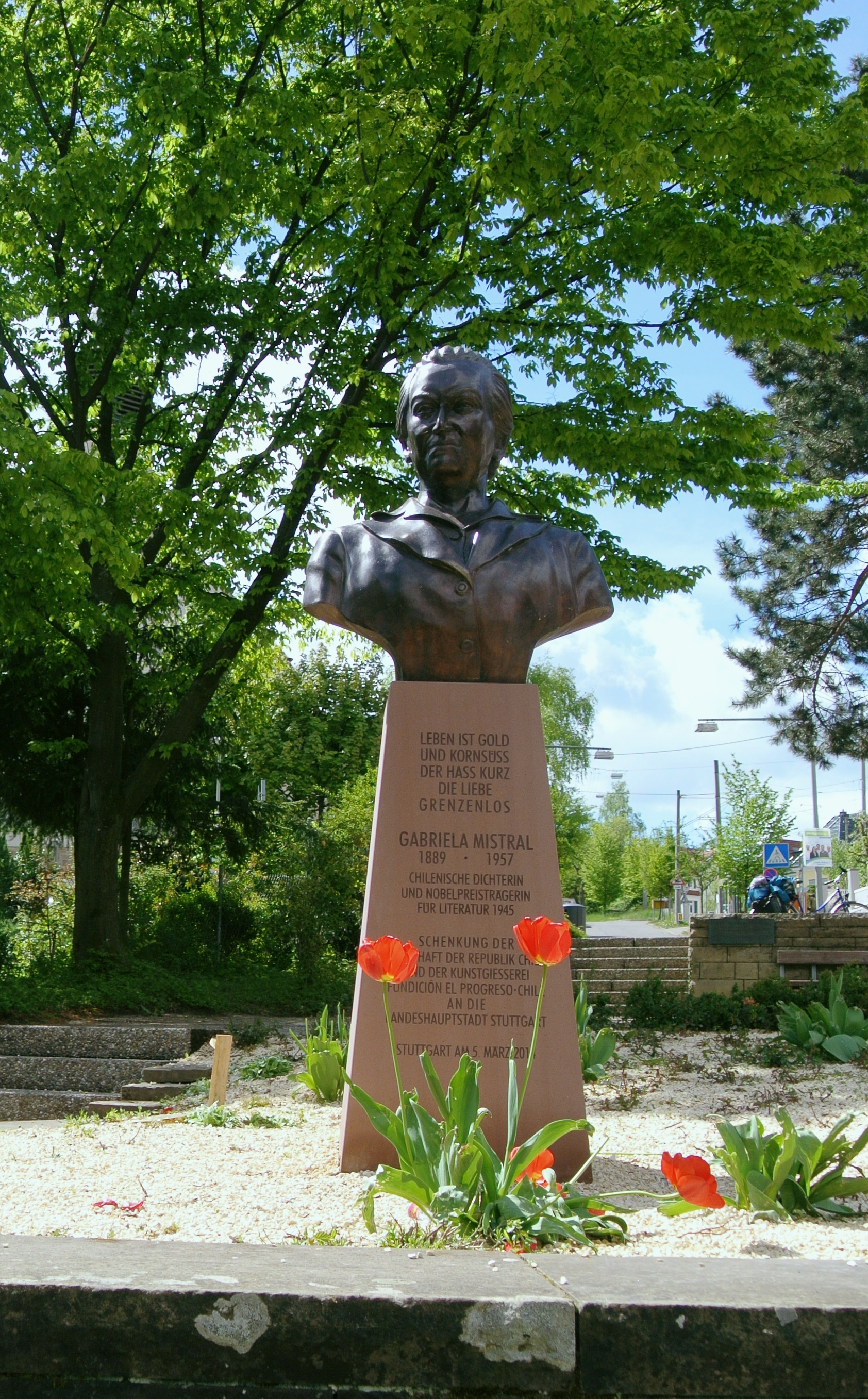 Bust of the Gabriela Mistral in Stuttgart-Haigst.